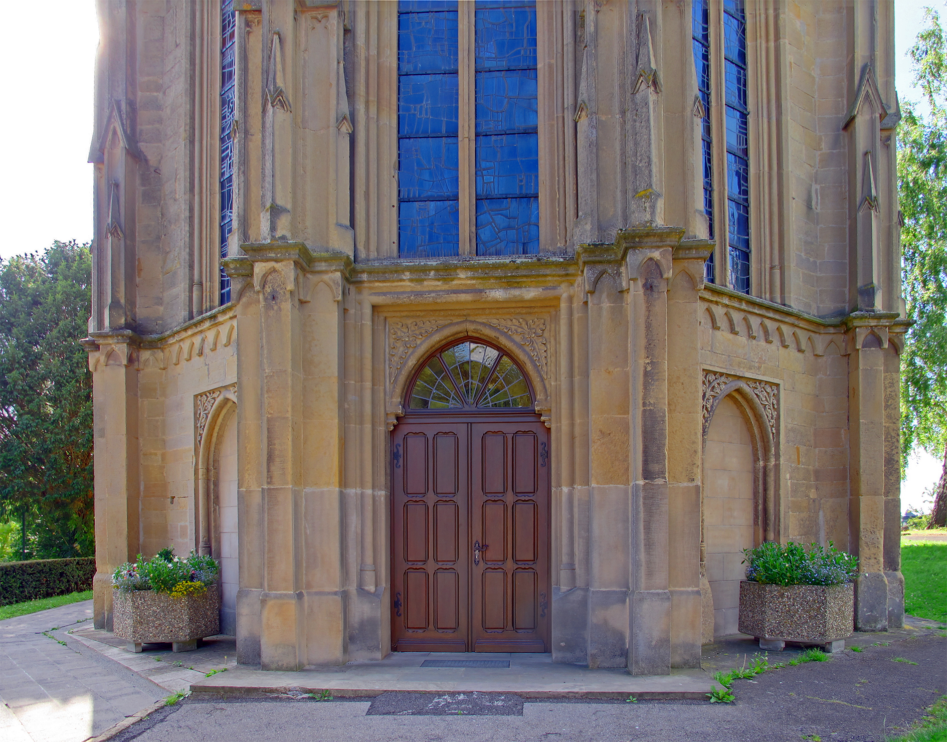 Church of Rollingen, Luxembourg